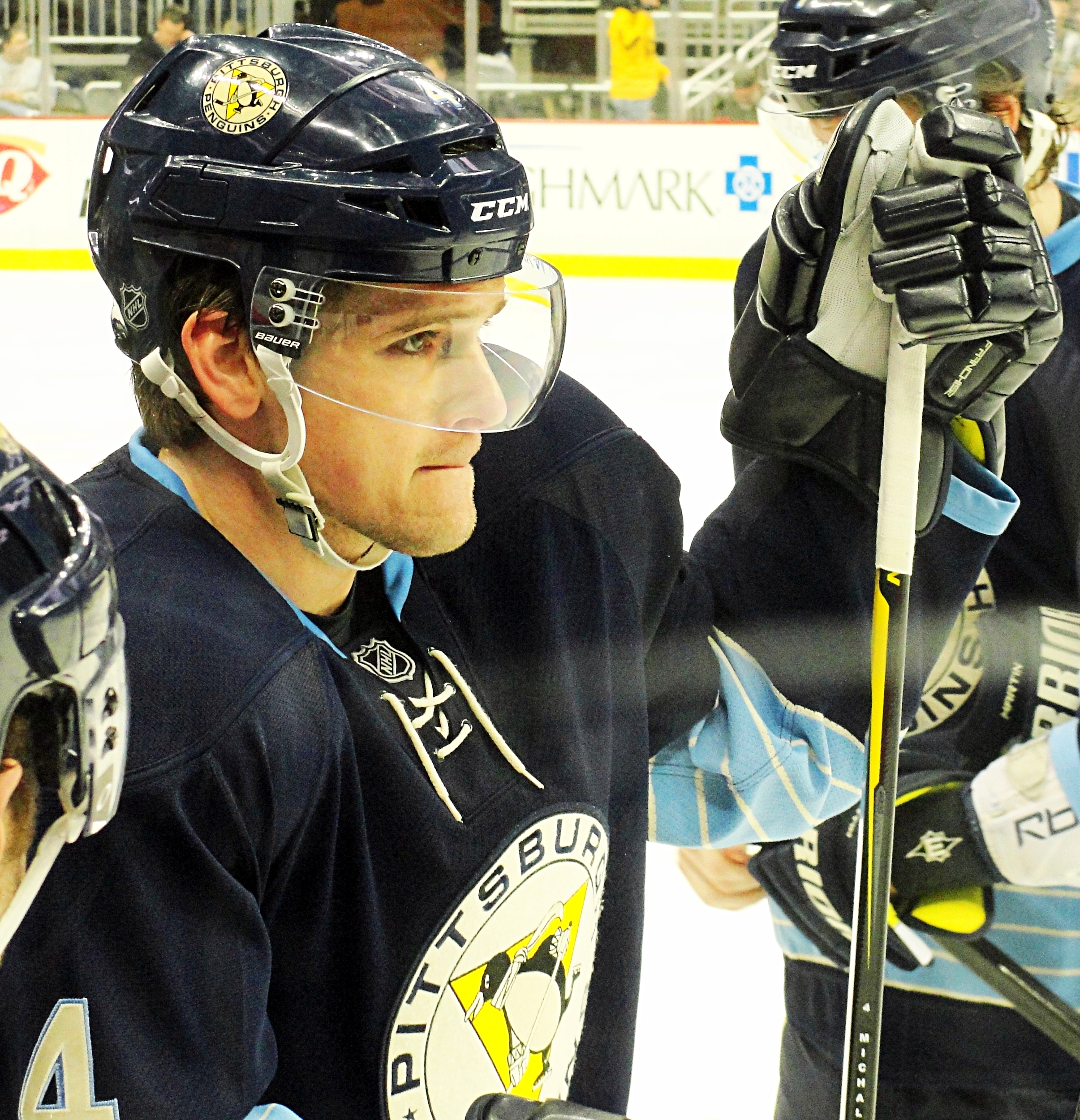 Pittsburgh Penguins defenseman Zbynek Michalek at the bench during a stoppage in play in a February 11, 2012 game against the Winnipeg Jets at Consol Energy Center in Pittsburgh, PA.